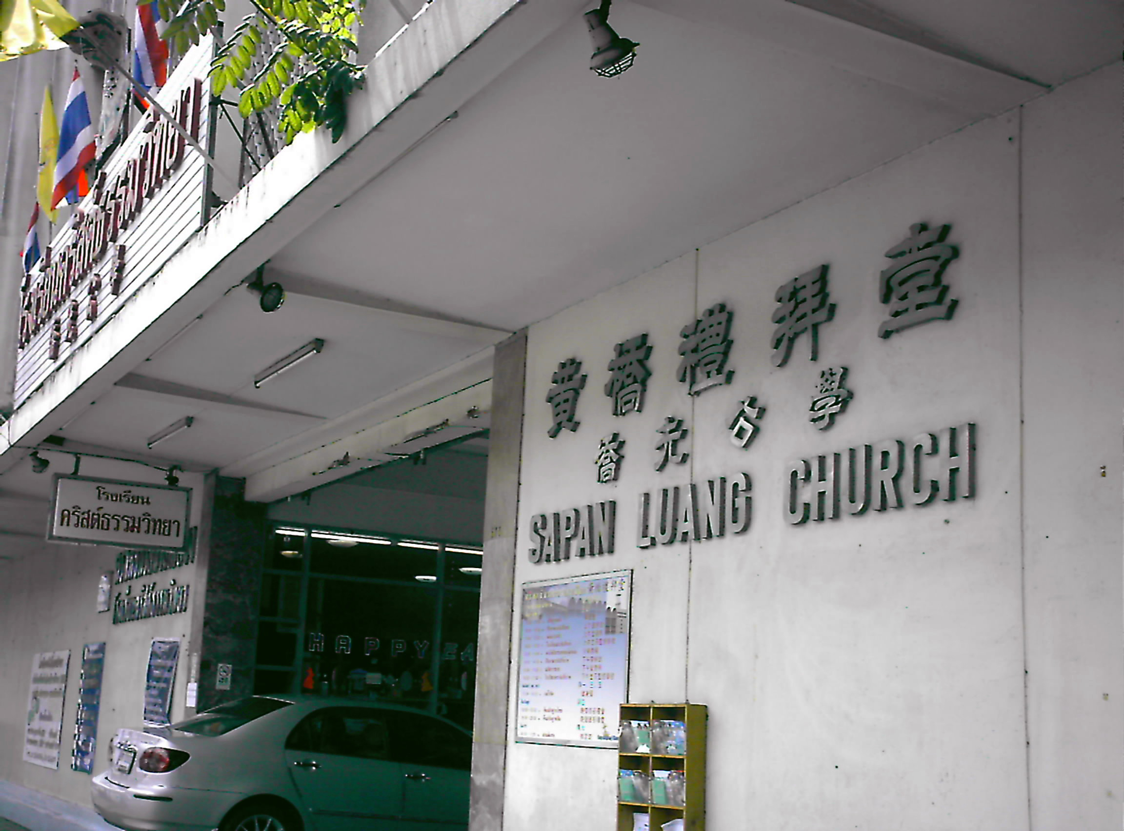 Sapan Luang Church, Rama 4 Road, Bangkok, Thailand 中文（香港）: 泰國，曼谷，挽叻縣，拍喃四路的黃僑禮拜堂